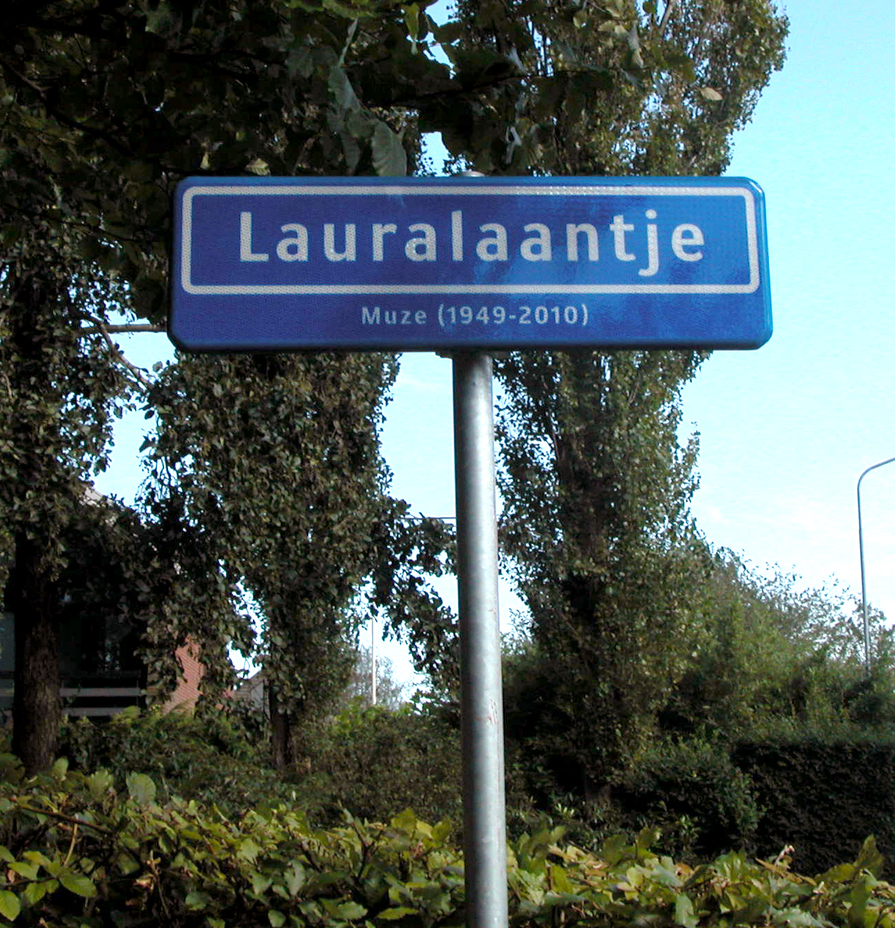 Museum Møhlmann exterior